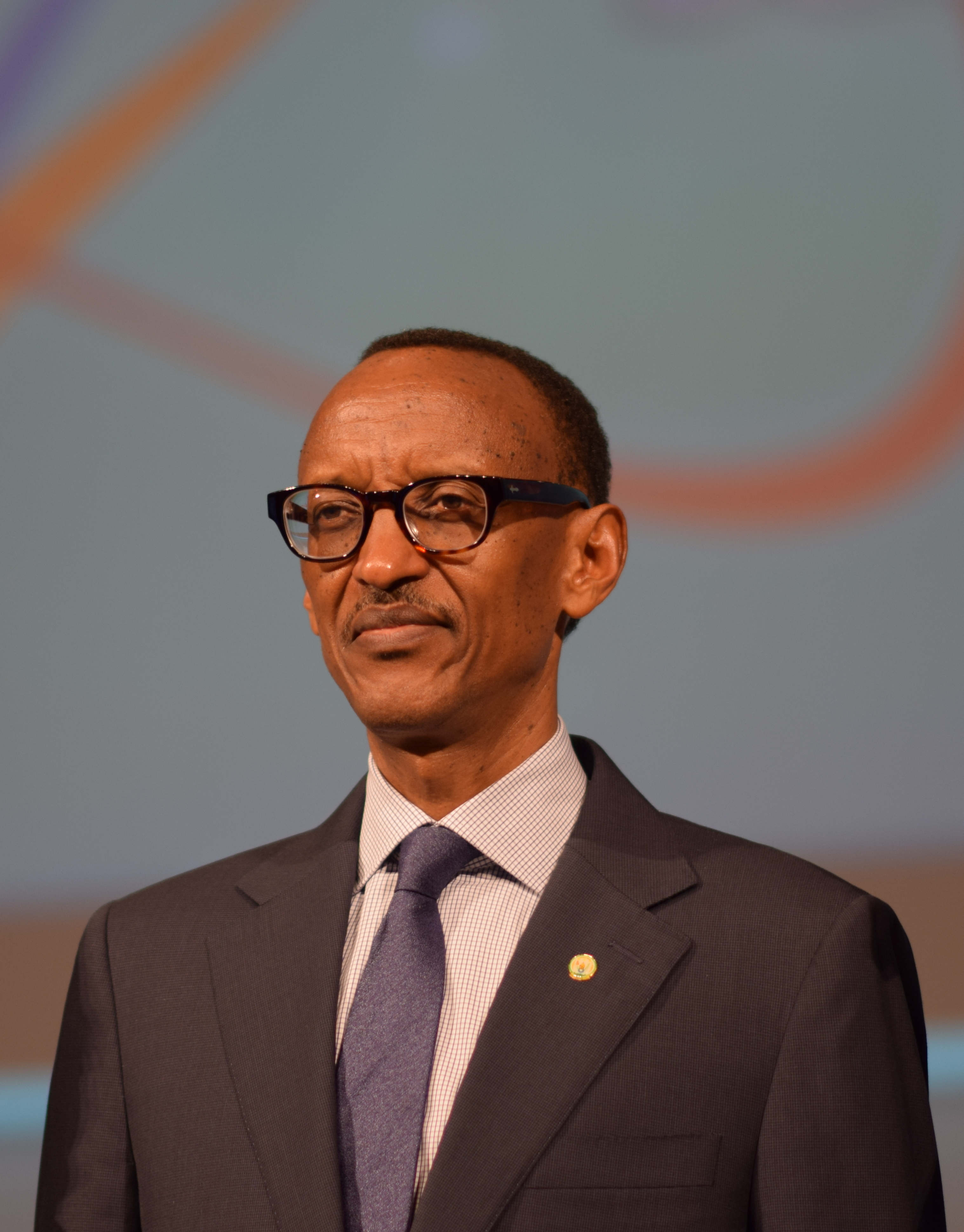 Rwandan President Paul Kagame at the ITU Plenipotentiary Meeting in Busan, Korea